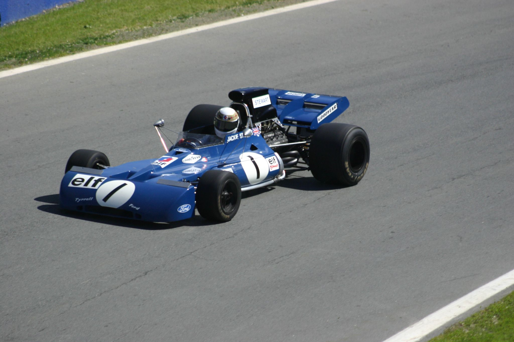 Jackie Stewart's Tyrrell 003 at a demonstration run during the 2004 Canadian Grand Prix.